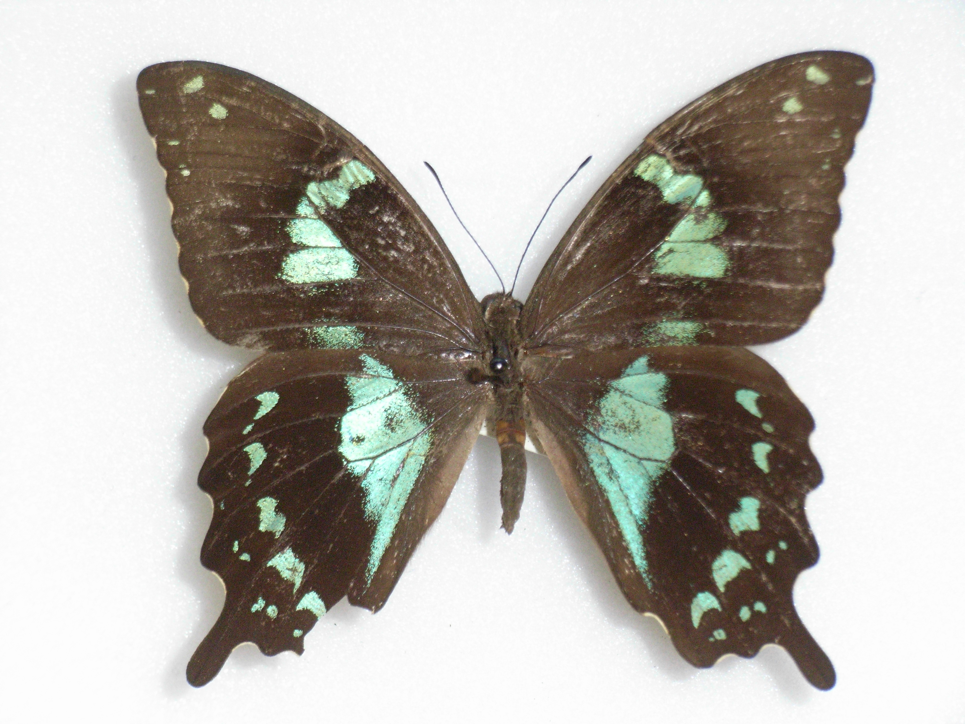 Papilio epiphorbas Boisduval, 1833 Female